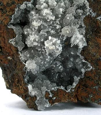 Talmessite, Austinite Locality: Gold Hill Mine (Western Utah Mine), Gold Hill, Gold Hill District (Clifton District), Deep Creek Mts, Tooele County, Utah, USA (Locality at ) Size: 7.7 x 5.2 x 3.0 cm. Talmessite is a rare arsenate, seldom found in good crystals. This piece has very small sub-mm chalk-white crystals, perched on sparkling austinite. Classic combination for this locality. Self-collected by Harold in 1999 when in his 70s. Ex. Harold Urish Collection.